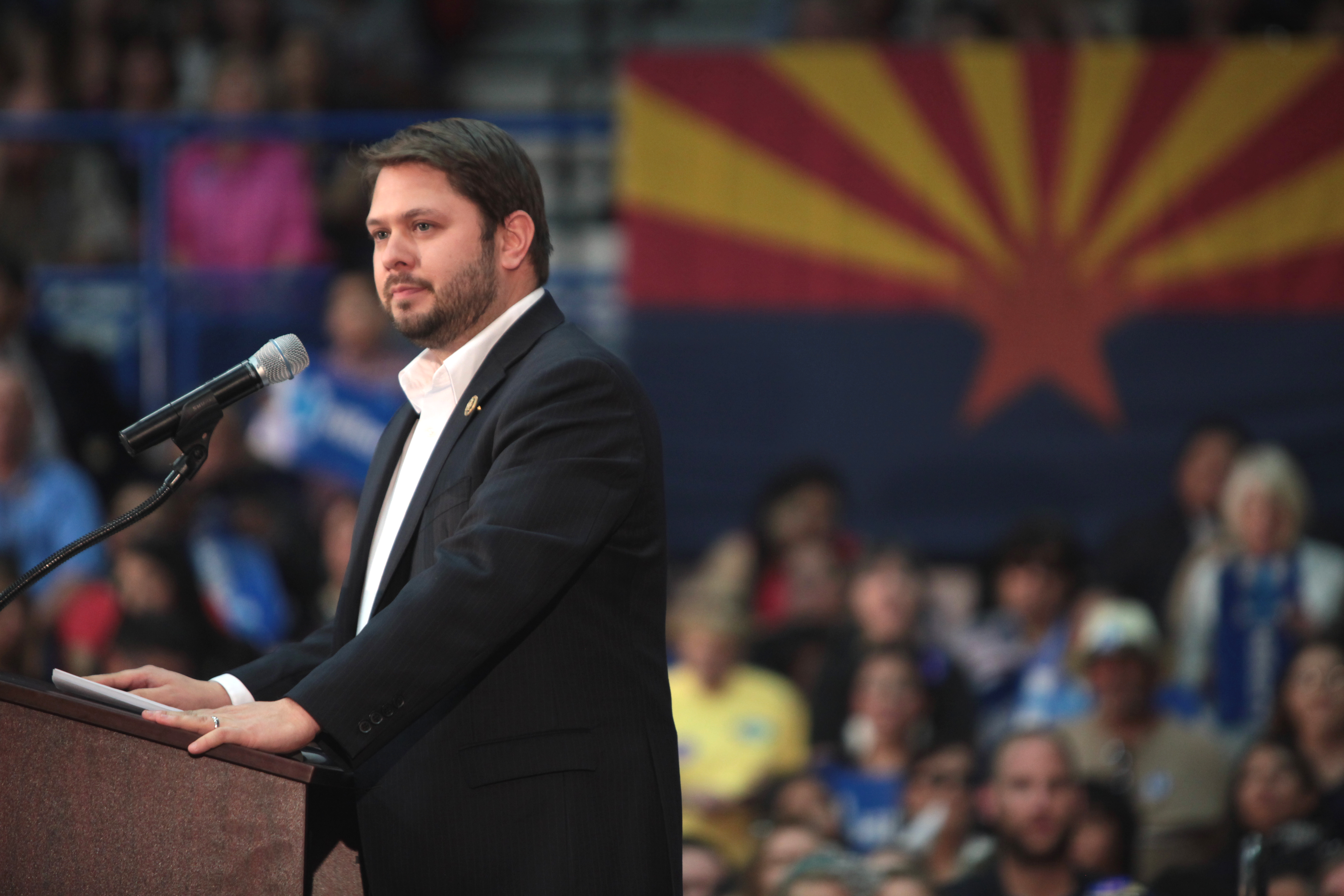 Ruben Gallego speaking at an event in Phoenix, Arizona.